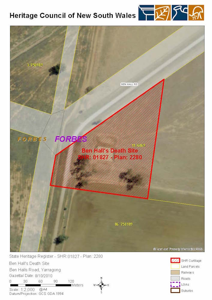 Ben Hall's Death Site: SHR Plan 2280